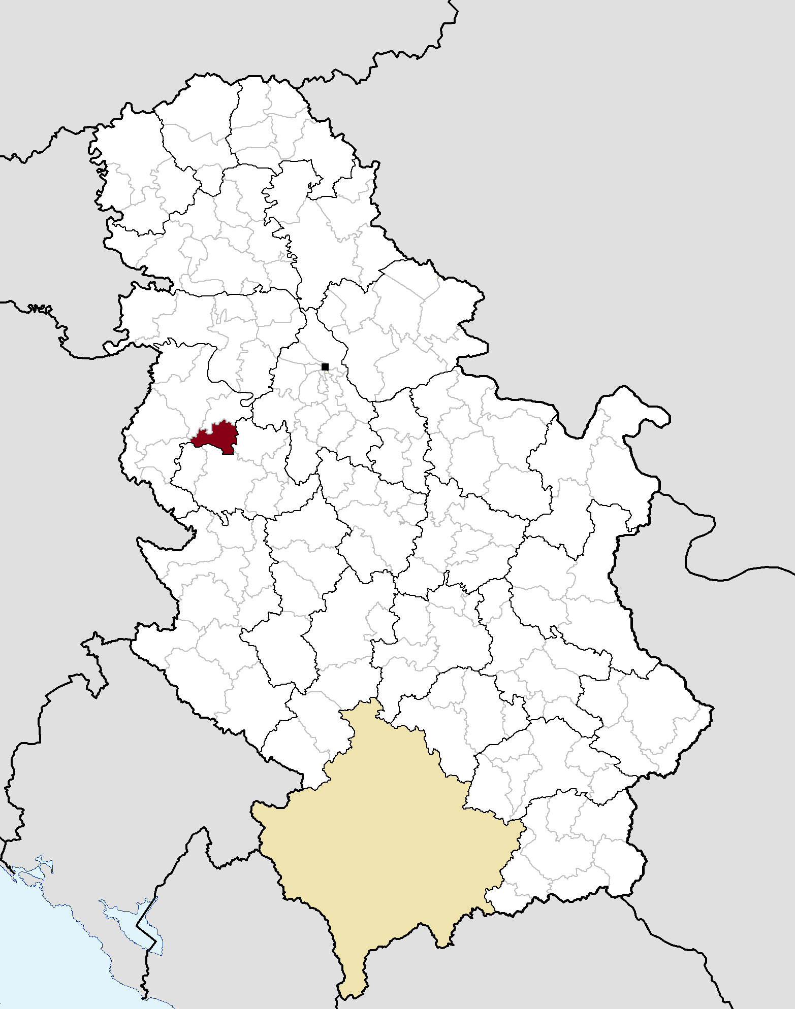 Municipal location in Serbia